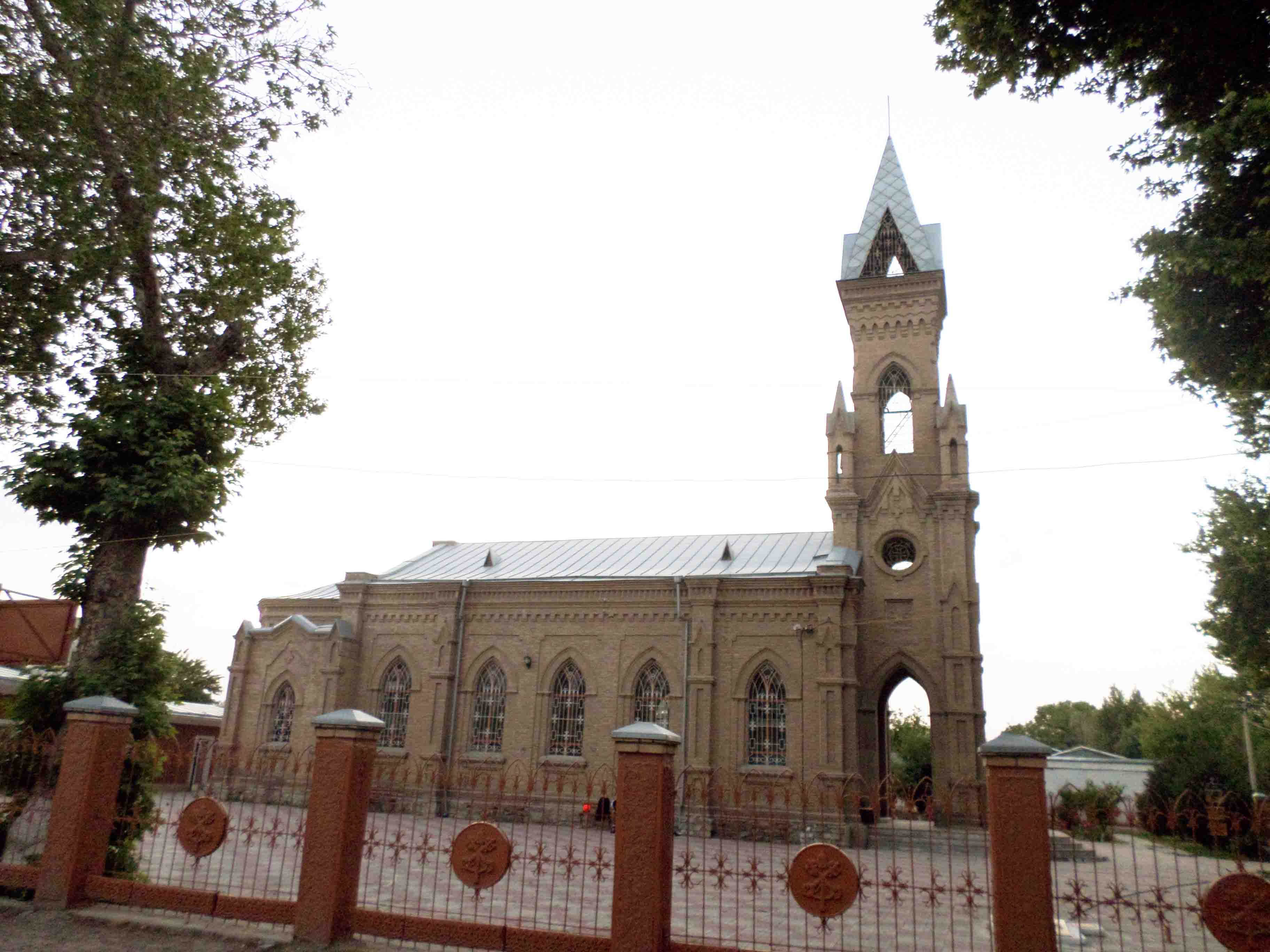 Church Saint John Baptist in Samarkand